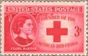 US stamp honoring Clara Barton